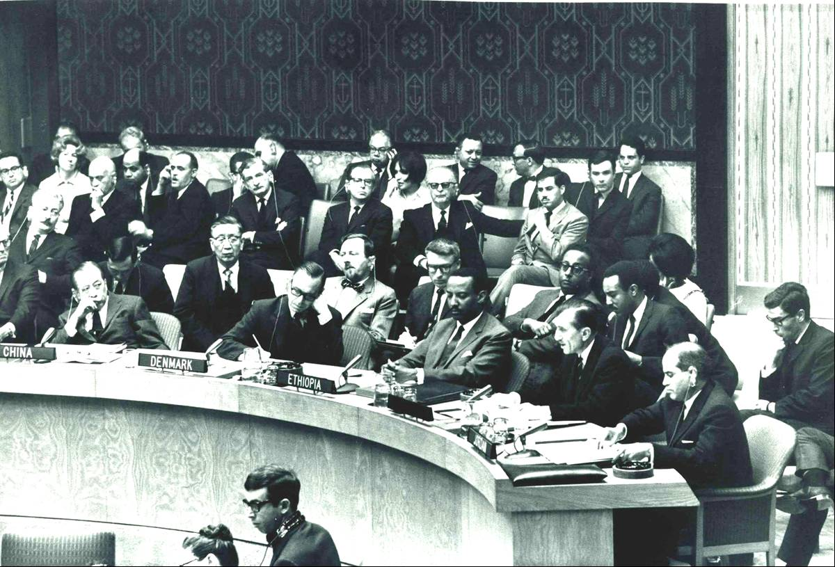 Mayor of Jerusalem at UN Security Council - 19 Feb. 1968